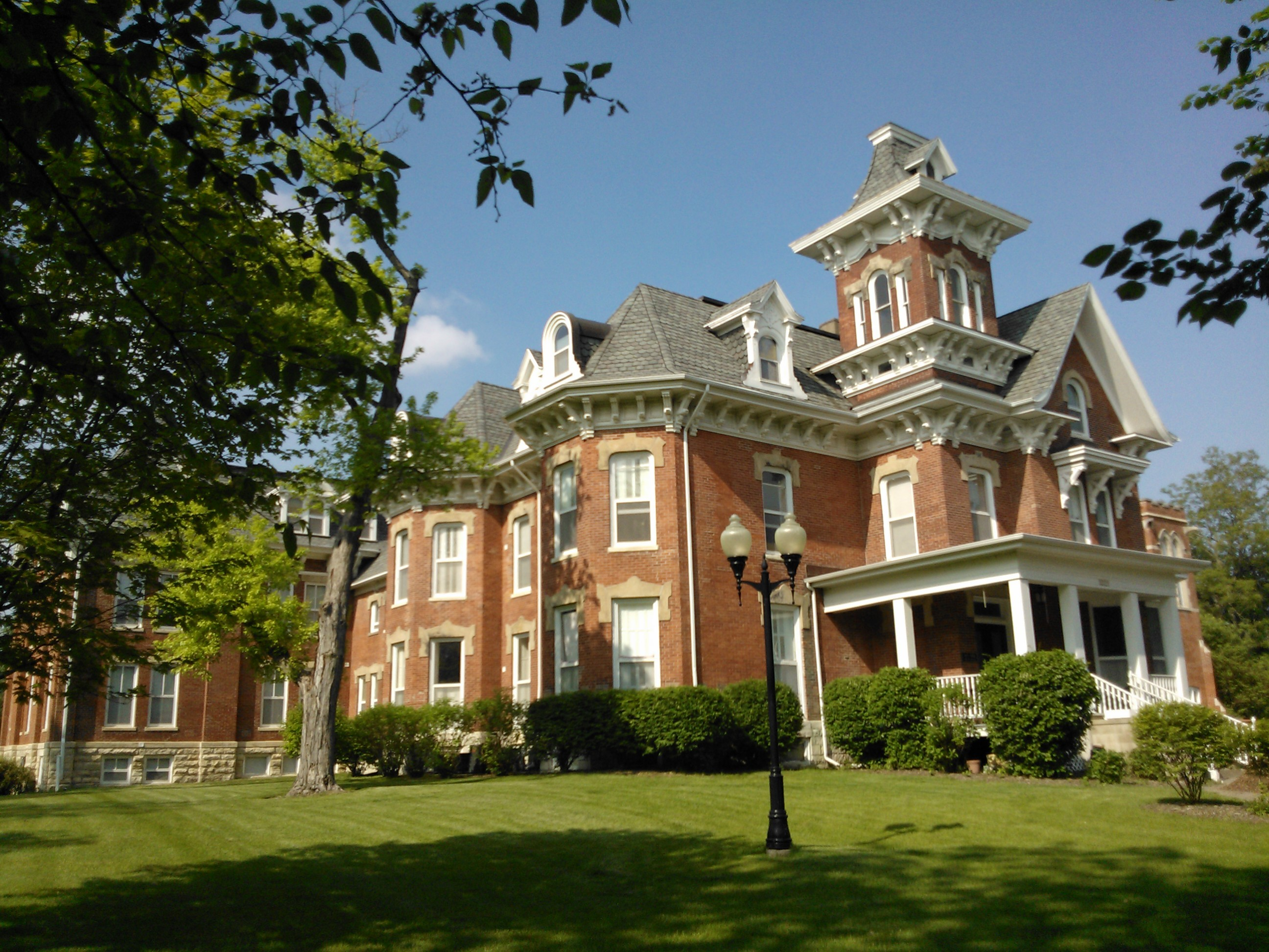 Cambria Place on the right and the classroom addition on the left are part of the main building that made up St. Katherine’s Hall, a school operated by the Episcopal Diocese of Iowa. It is part of the St. Katherine’s Historic District in Davenport, Iowa.